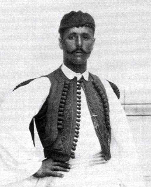 Olympic Games 1896, Athens. The Greek Olympic champion in the marathon, Spiridon Louis.